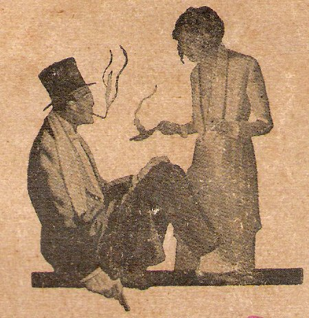 P.G. Wodehouse's Psmith. Cover of the Bietti edition of Leave it to Psmith (1936).